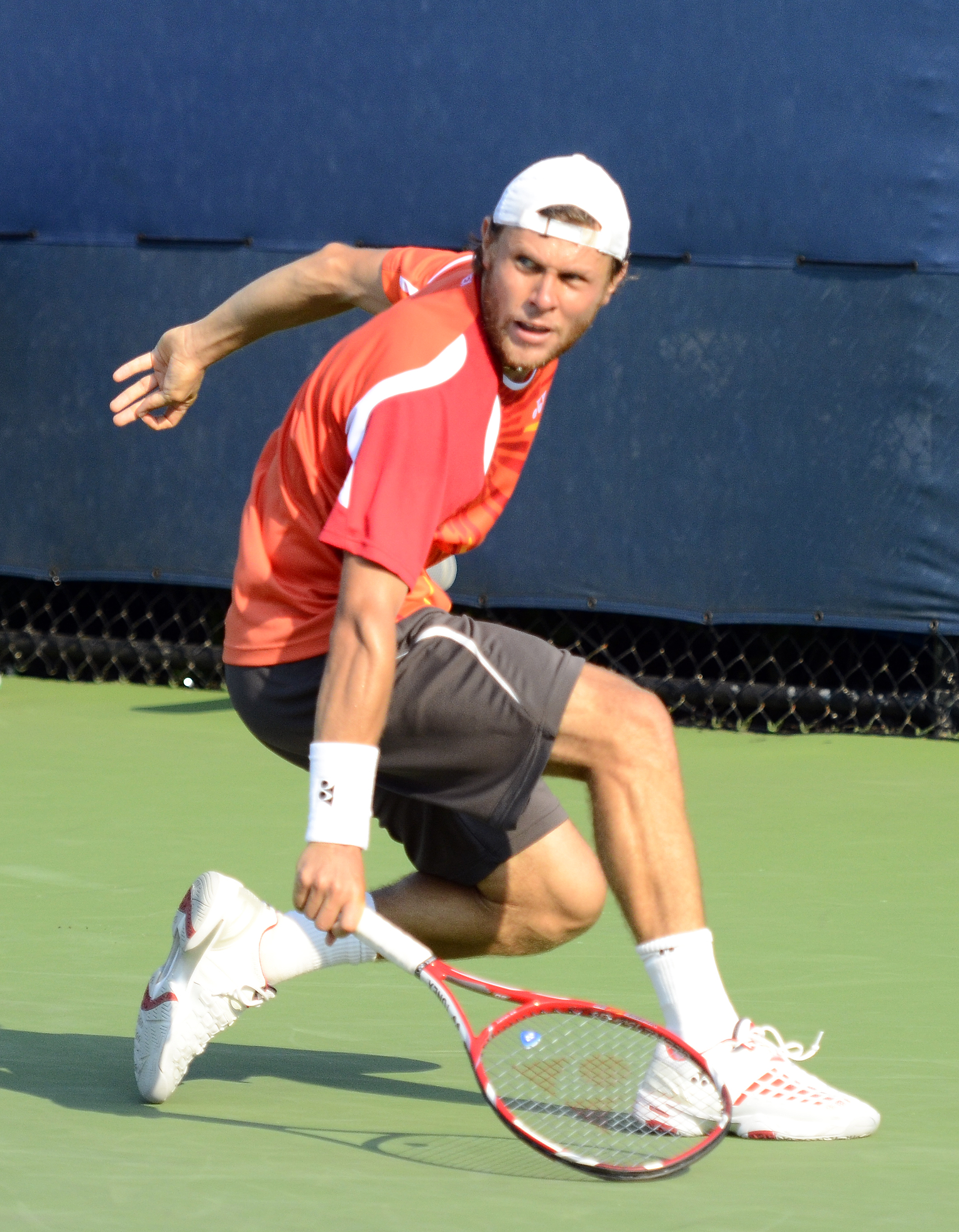 August 26, 2014 Queens, NY Gilles Simon (FRA) def. Radu Albot (MDA)